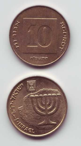 10 Agorot coin from התשס"ה